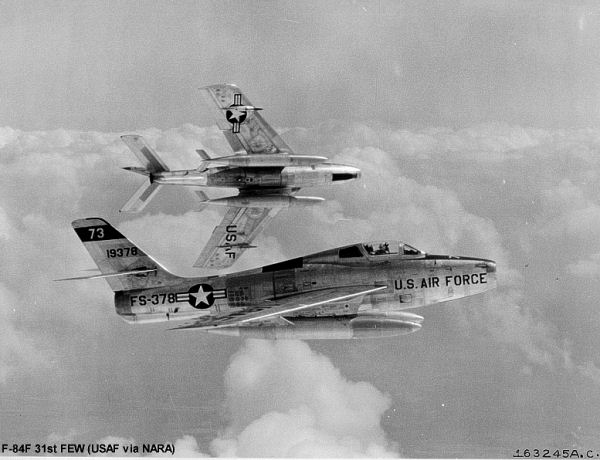 F-84Fs of the 31st Fighter Escort Wing, Turner AFB Georgia, about 1952